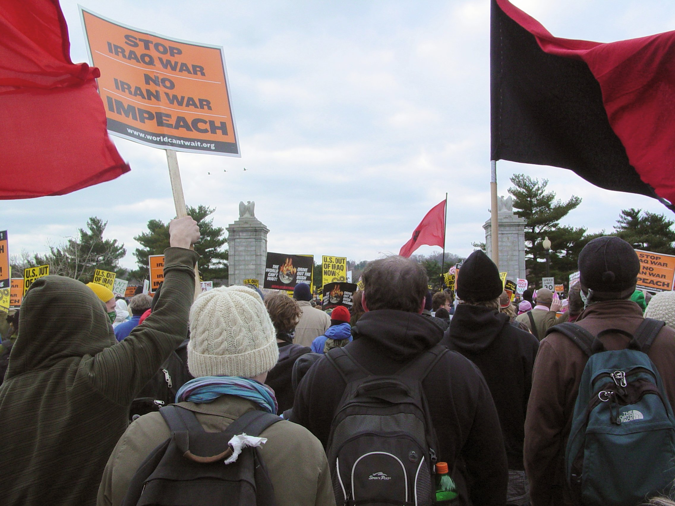 Participants in the March 17, 2007 anti-war protest cross Memorial Bridge on a march towards the Pentagon in Arlington, Virginia.